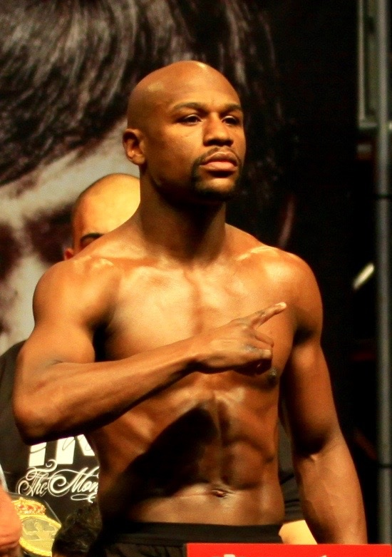 Floyd Mayweather Jr. 2015